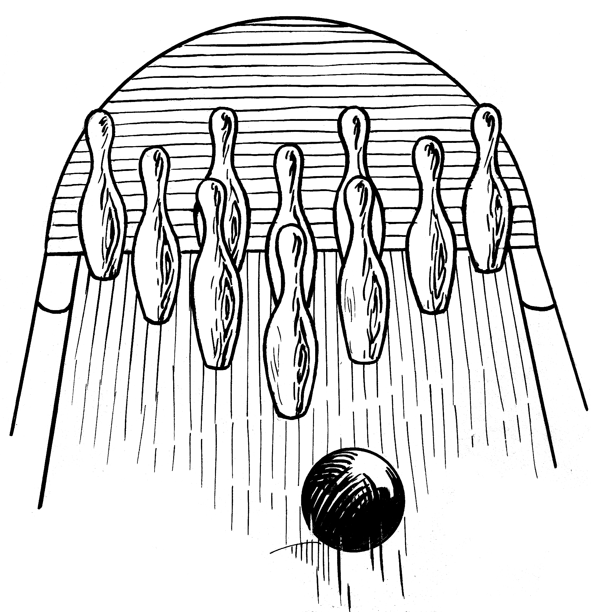 Line drawing of tenpin drawing